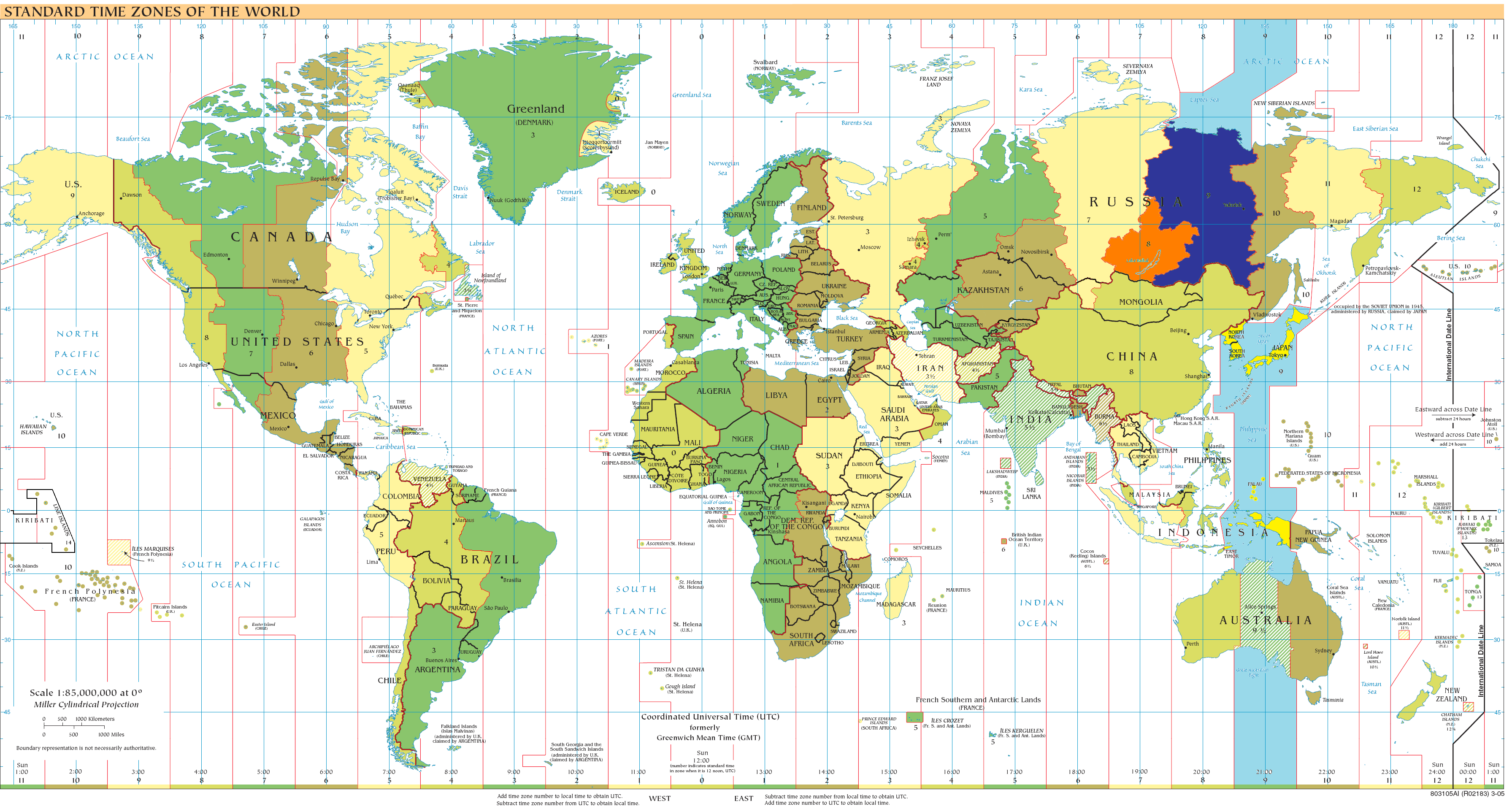 Copied from Timezones2008.png - Highlighting UTC+9 - Light Blue -Sea area - Yellow - UTC +9 all year round - Orange - UTC +9 in Northern Summer / Southern Winter - Dark Blue - UTC +9 in Northern Winter / Souther Summer